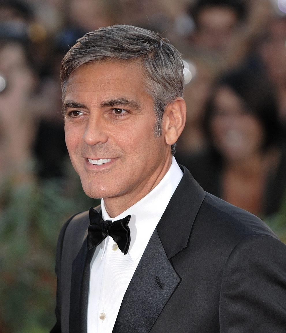 George Clooney at the 2009 Venice Film Festival depicted person: George Clooney (age: 47.64)